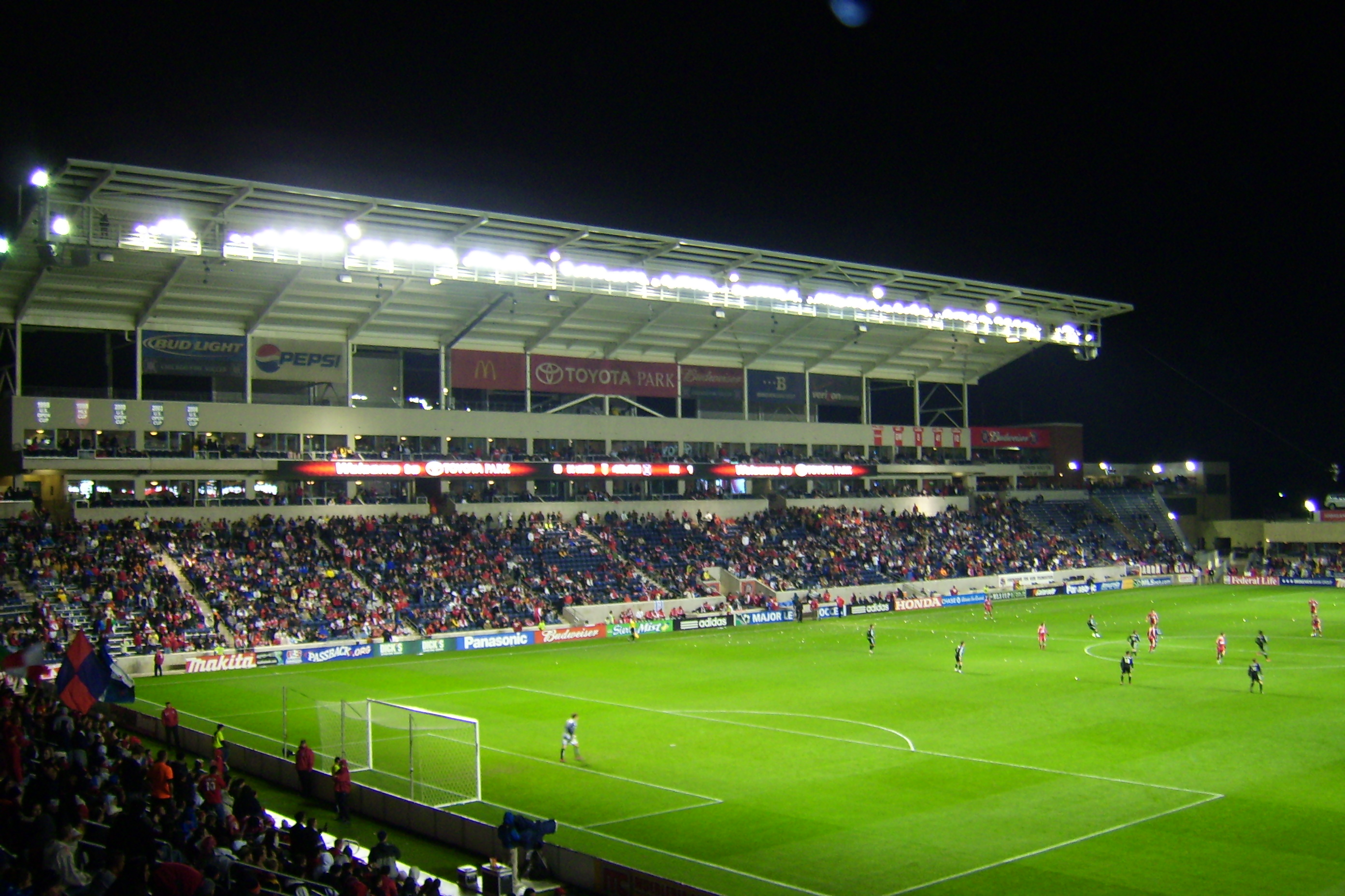 Chicago Fire home game at "Toyota Park" in Bridgeview, IL